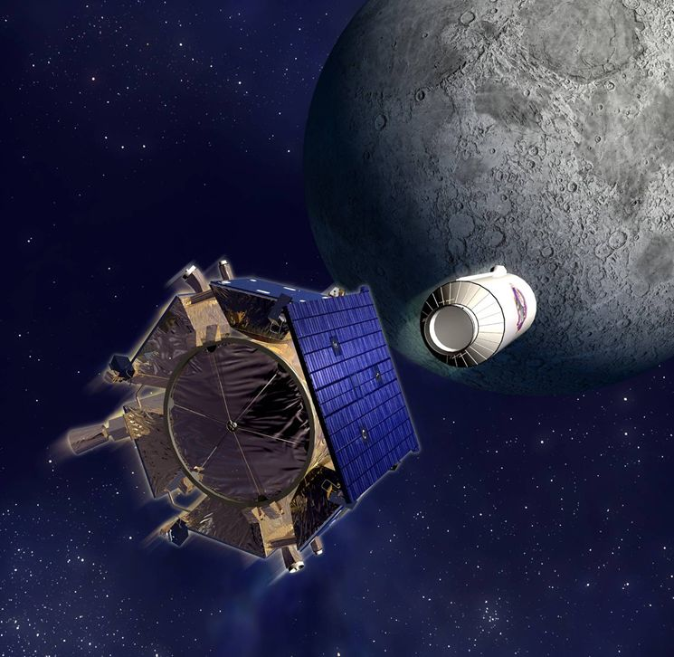 Image of LCROSS separation from Centaur during lunar approach. Image created by Northrop Grumman for NASA and the LCROSS mission.